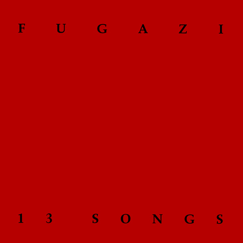 Cover of the Fugazi album 13 Songs. Because the cover consists only of standard text type on a plain, single-colored background, it does not pass the threshold of originality necessary for copyright in the U.S.